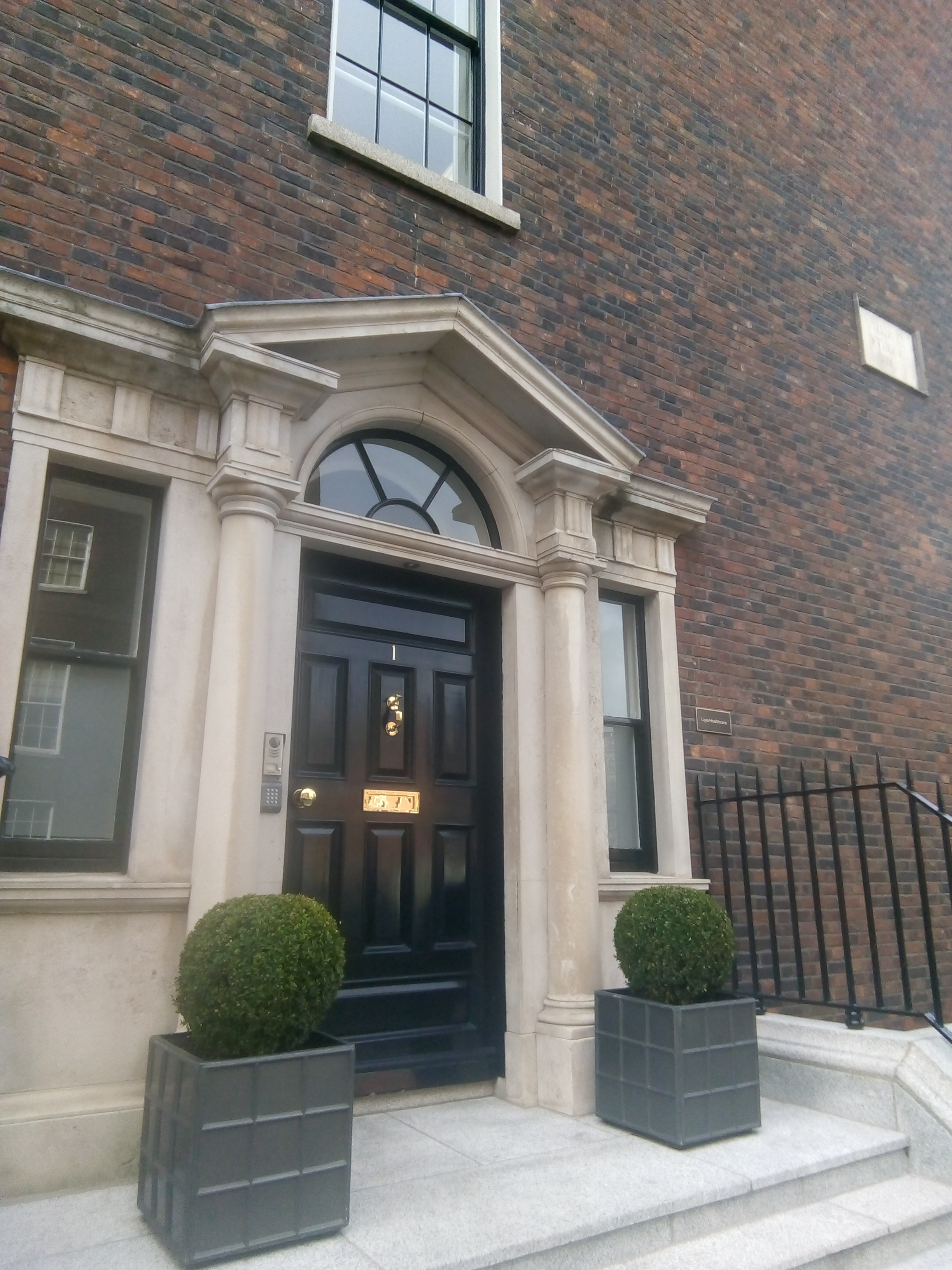 Door of Laya Health, Dublin